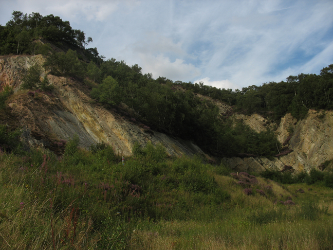 An image of Ercall Hill, in Shropshire, England. Photo by Chris Bayley.